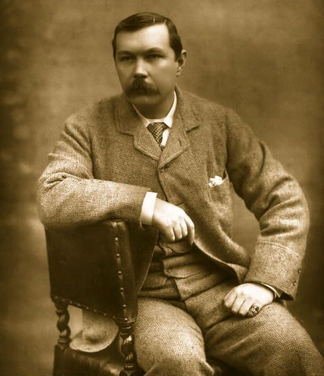 Photograph of Arthur Conan Doyle, seated sideways on chair. Published in "Men and Women of the Day 1893", Eglington & Co., England, 1893.